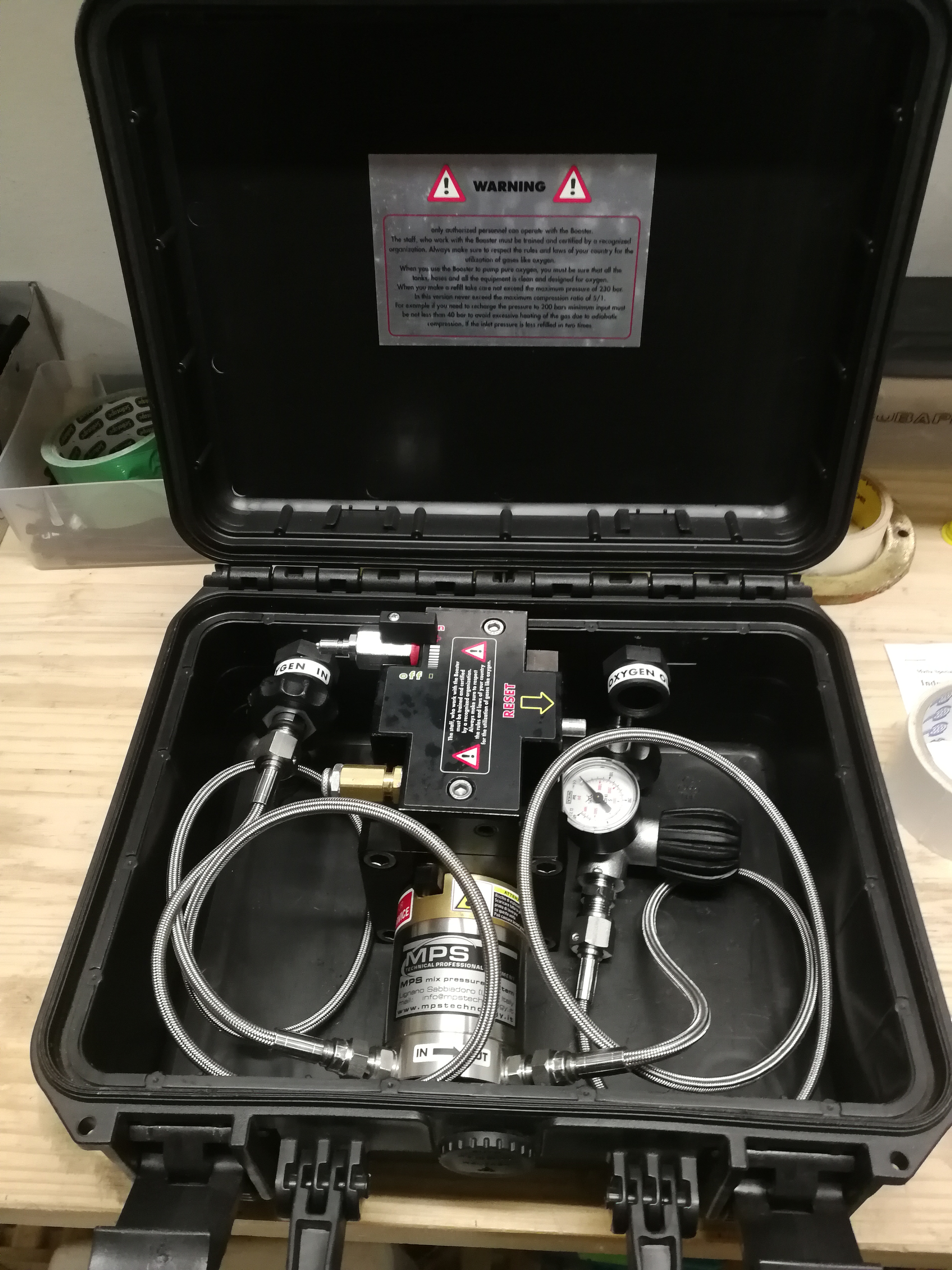 Small portable high pressure breathing gas booster pump powered by low pressure compressed air